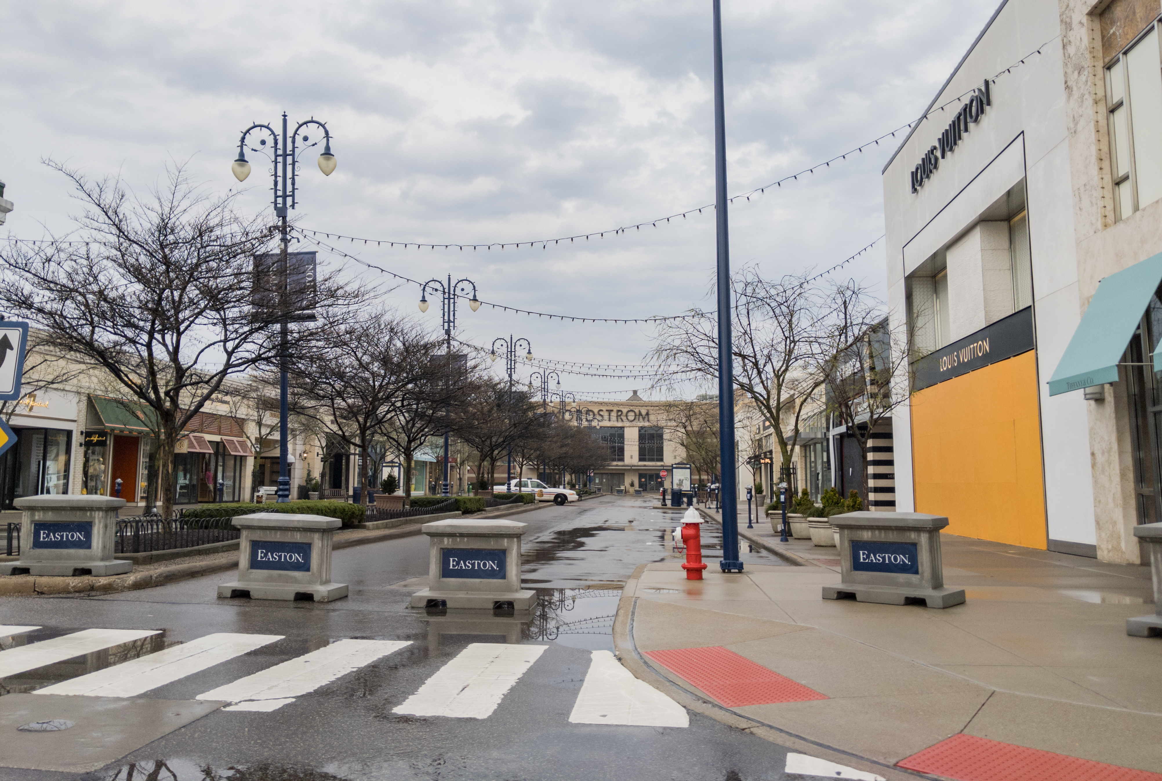 Easton Town Center, Columbus, Ohio, closed due to the coronavirus pandemic.